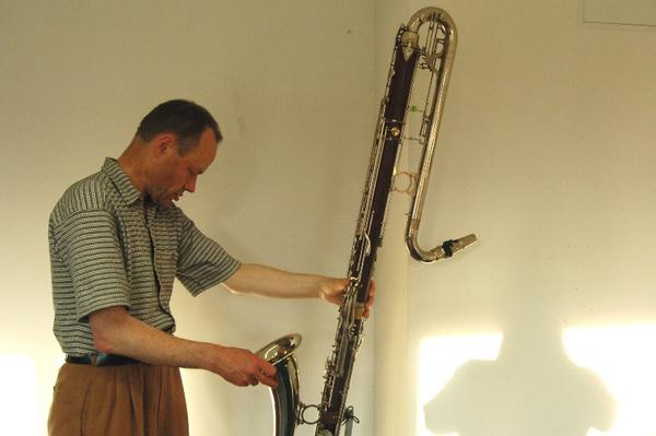 German contrabass clarinet player Ernst Deuker working